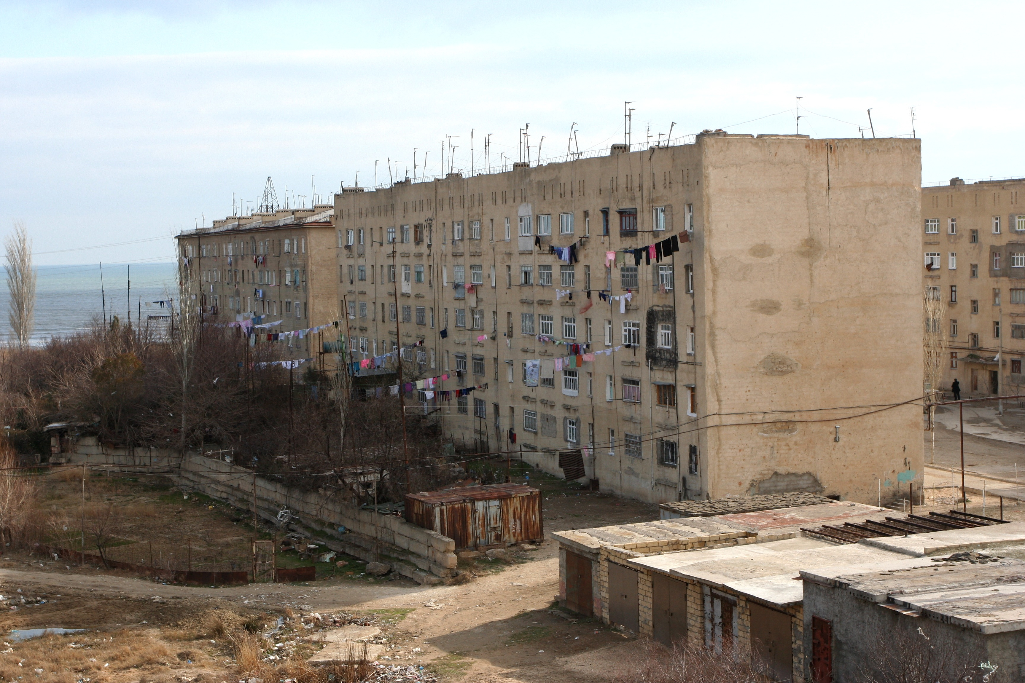 Apartment buildings in Sumqayit